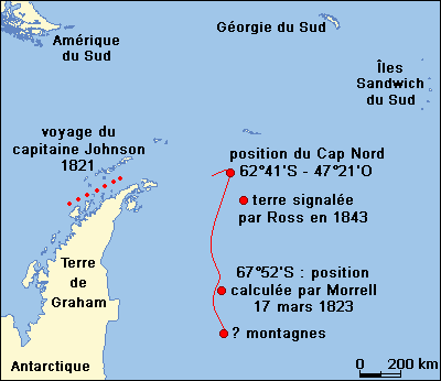 Map of Antarctica and the supposed coastline of New South Greenland as described by Benjamin Morrell in red.